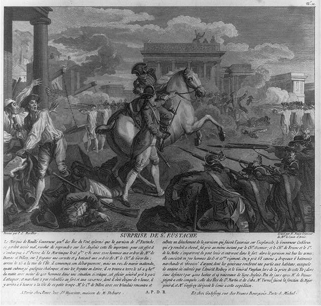 Attack and capture of the island of St. Eustatius against the English in 1781 by troops of the Marquis de Bouille. Engraving 1784.